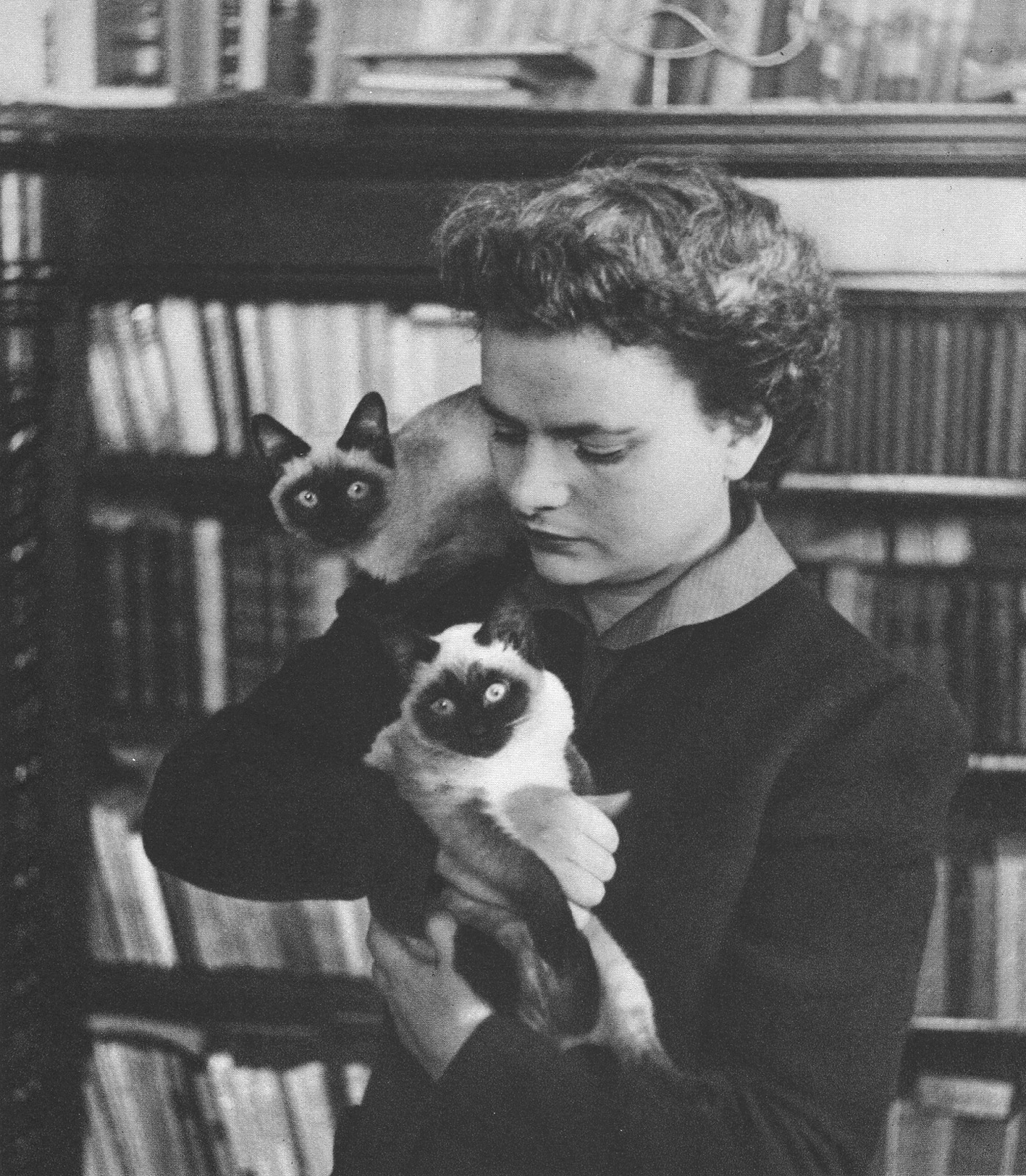 Italian writer Elsa Morante (1918–85) in her Rome apartment.